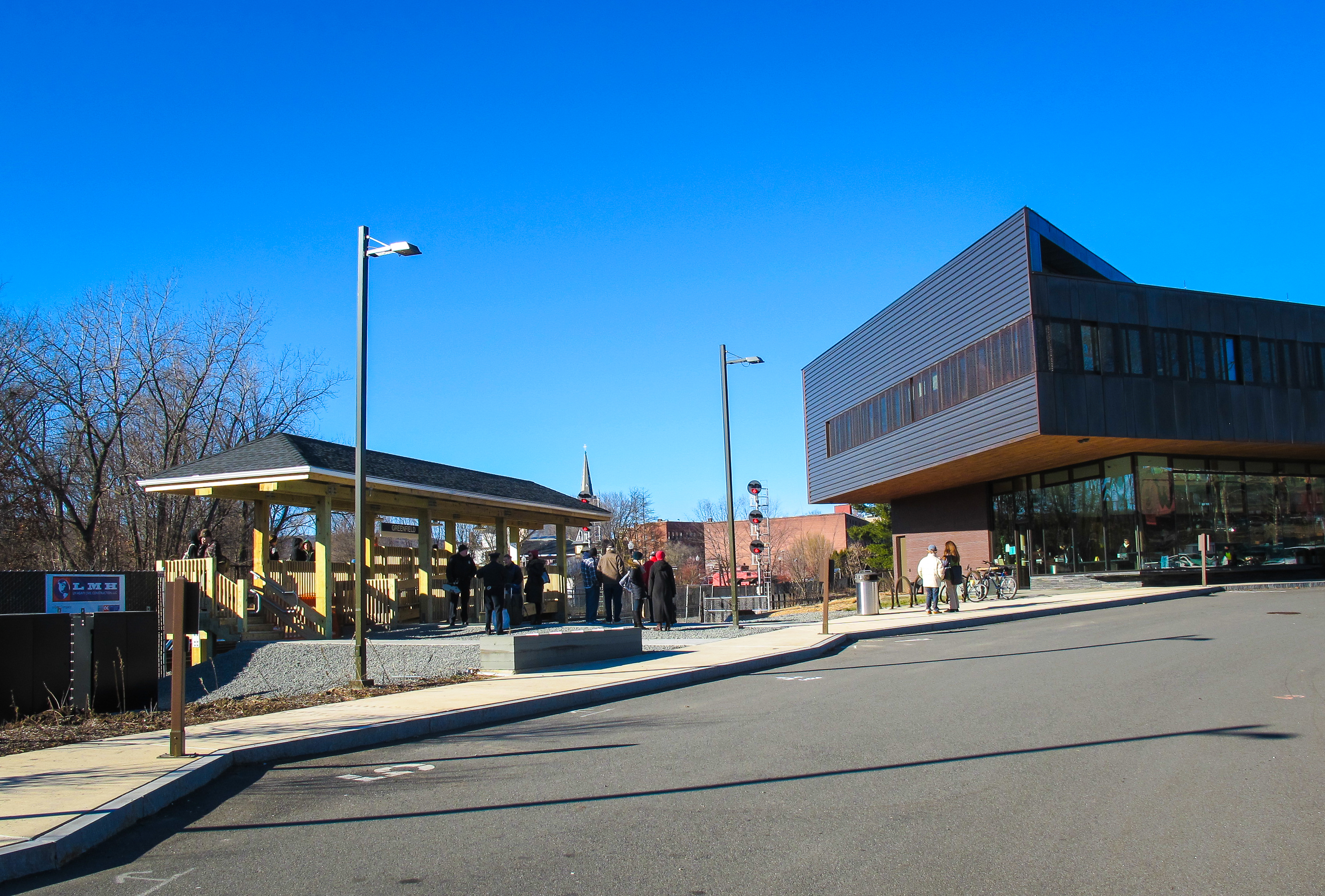 Passengers waiting for the arrival of Amtrak's Vermonter train at the John W. Olver Transit Center in Greenfield, Massachusetts